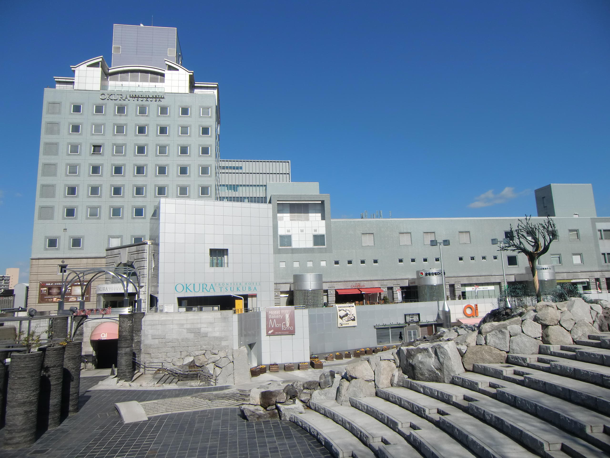 Tsukuba Center Building / Okura Frontier Hotel Tsukuba in Azuma 1-chome, Tsukuba city, Ibaraki prefecture, Japan. Arata Isozaki designed this building.